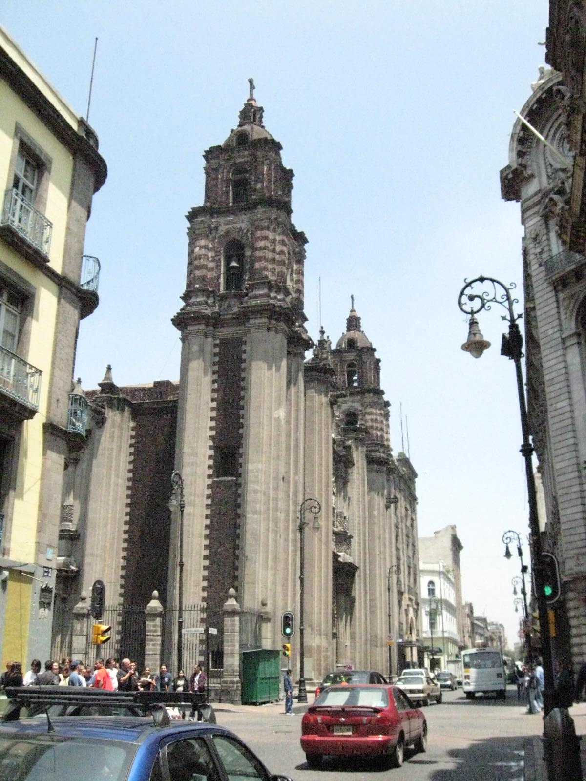 Temple of San Felipe Neri "La Profesa" located on northwest corner of Isabel la Catolica and Madero streets in the centro of Mexico City